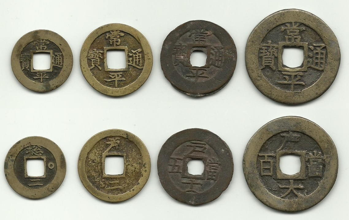 All denominations of the Sangpyeong Tongbo (常平通寶) series of cash coins. These are the denominations of 1 Mun, 2 Mun, 5 Mun, and 100 Mun (一文, 二文, 五文, 百文).